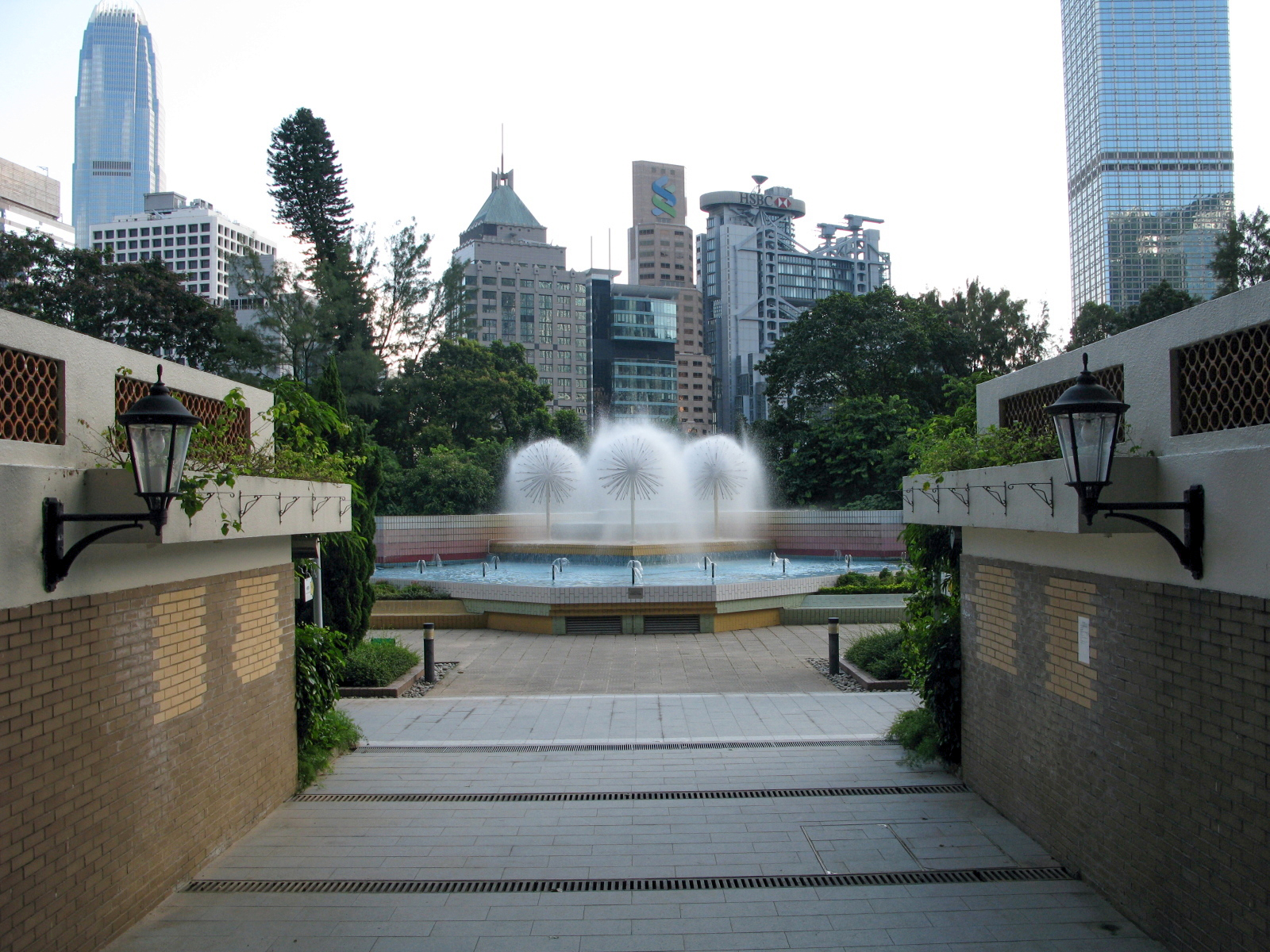 Hong Kong Zoological and Botanical Gardens